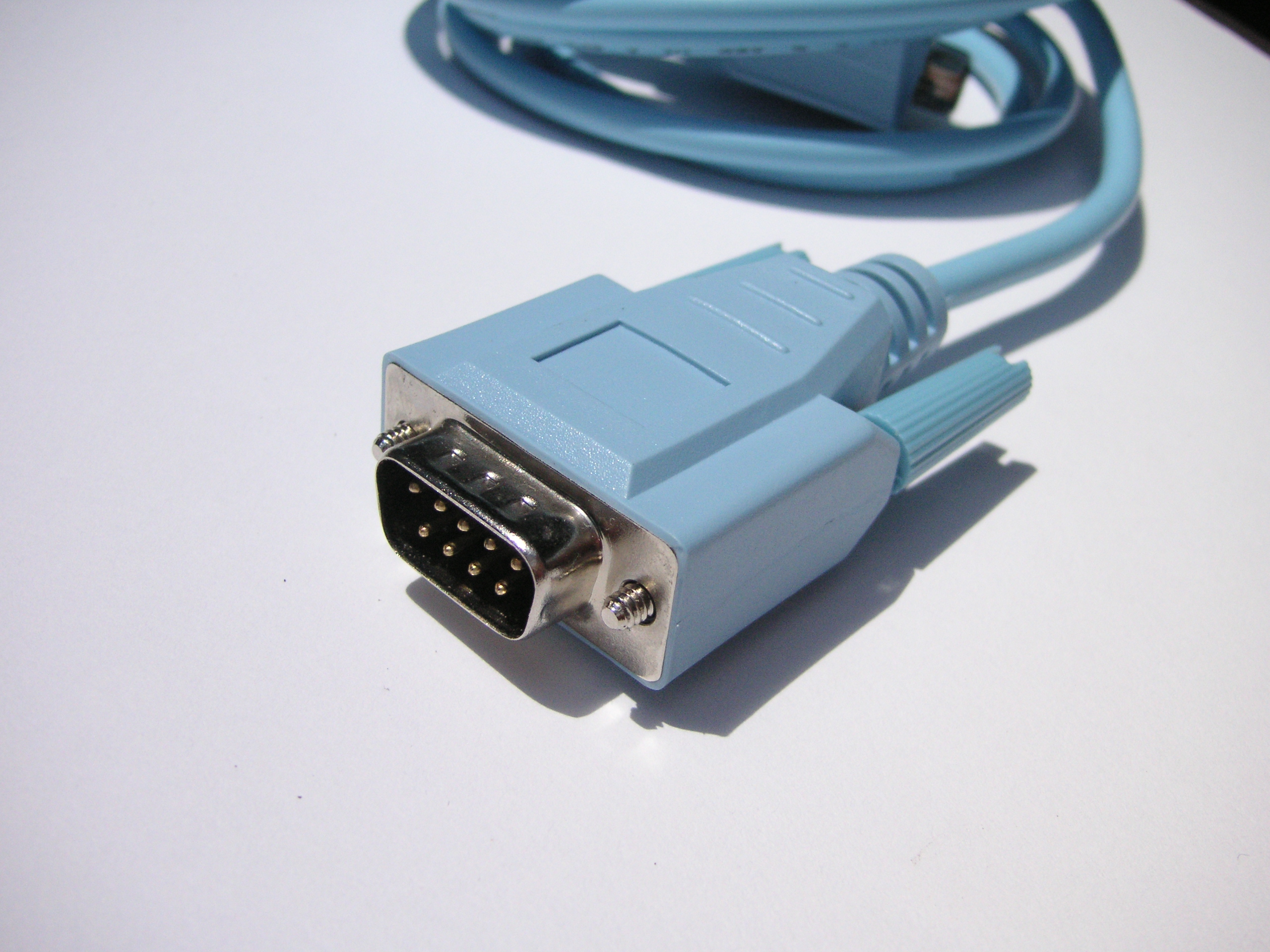 A Serial cable used for communicating over RS-232. The DB-9 plug and blue color are typical of many such cables.